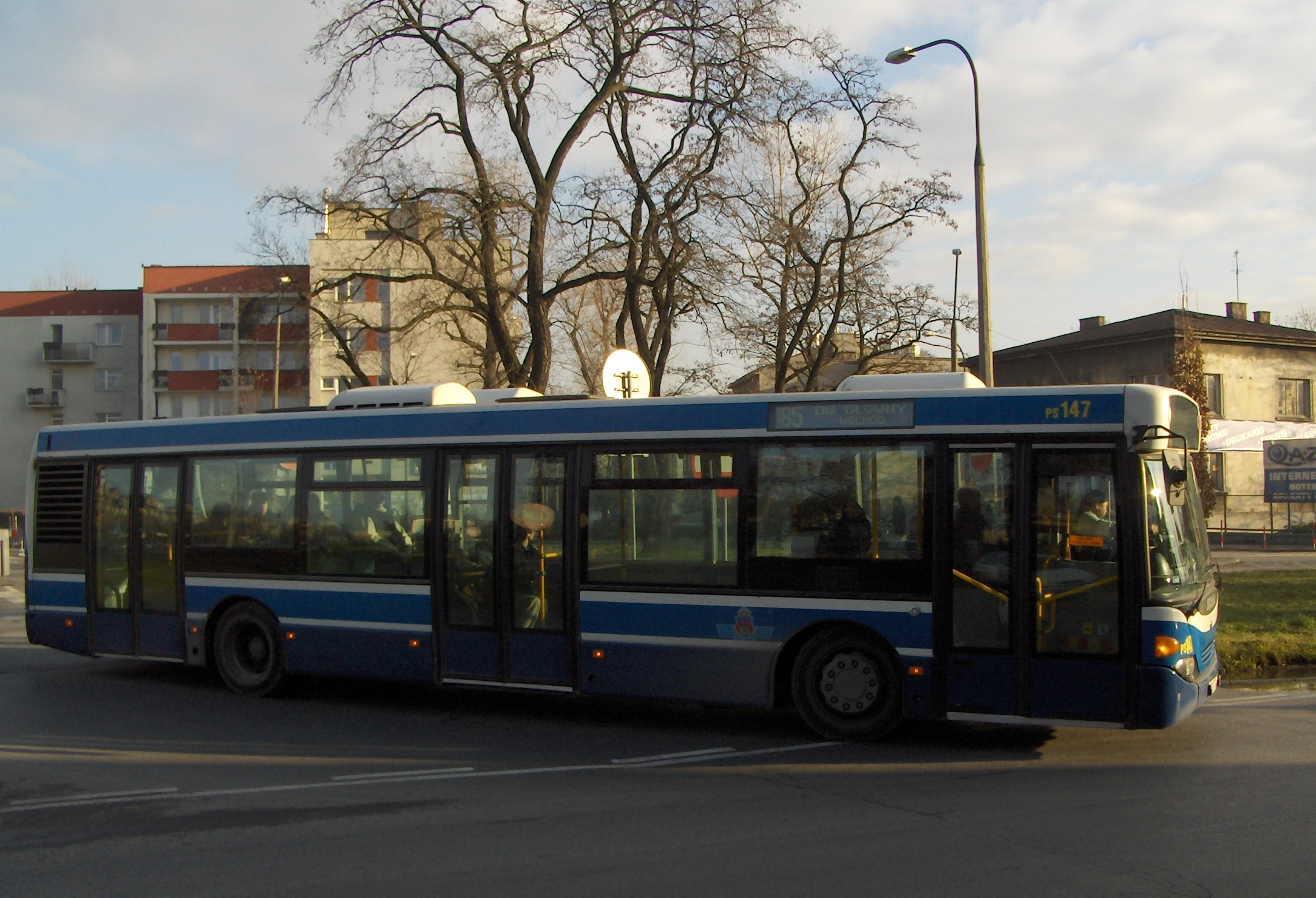 Scania CN94UB OmniCity bus (#PS147) from MPK Kraków, Poland. Built 2000. Made by Scania Production Słupsk.